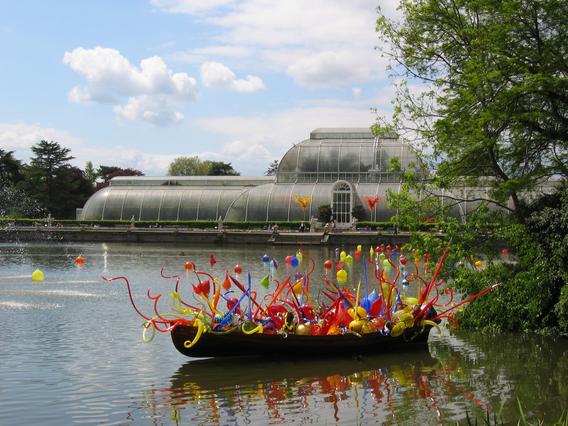 Glass art by Dale Chihuly at an extensive exhibition in Kew Gardens, London, in 2005. The boat is in front of the Palm House, where there are two other glass sculptures.